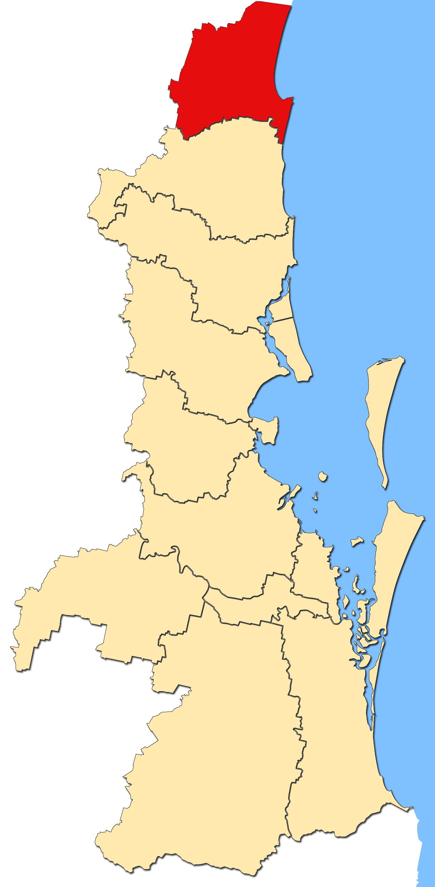 Map of South East Queensland urban local government areas, with Noosa Shire highlighted. Created by MagpieShooter.